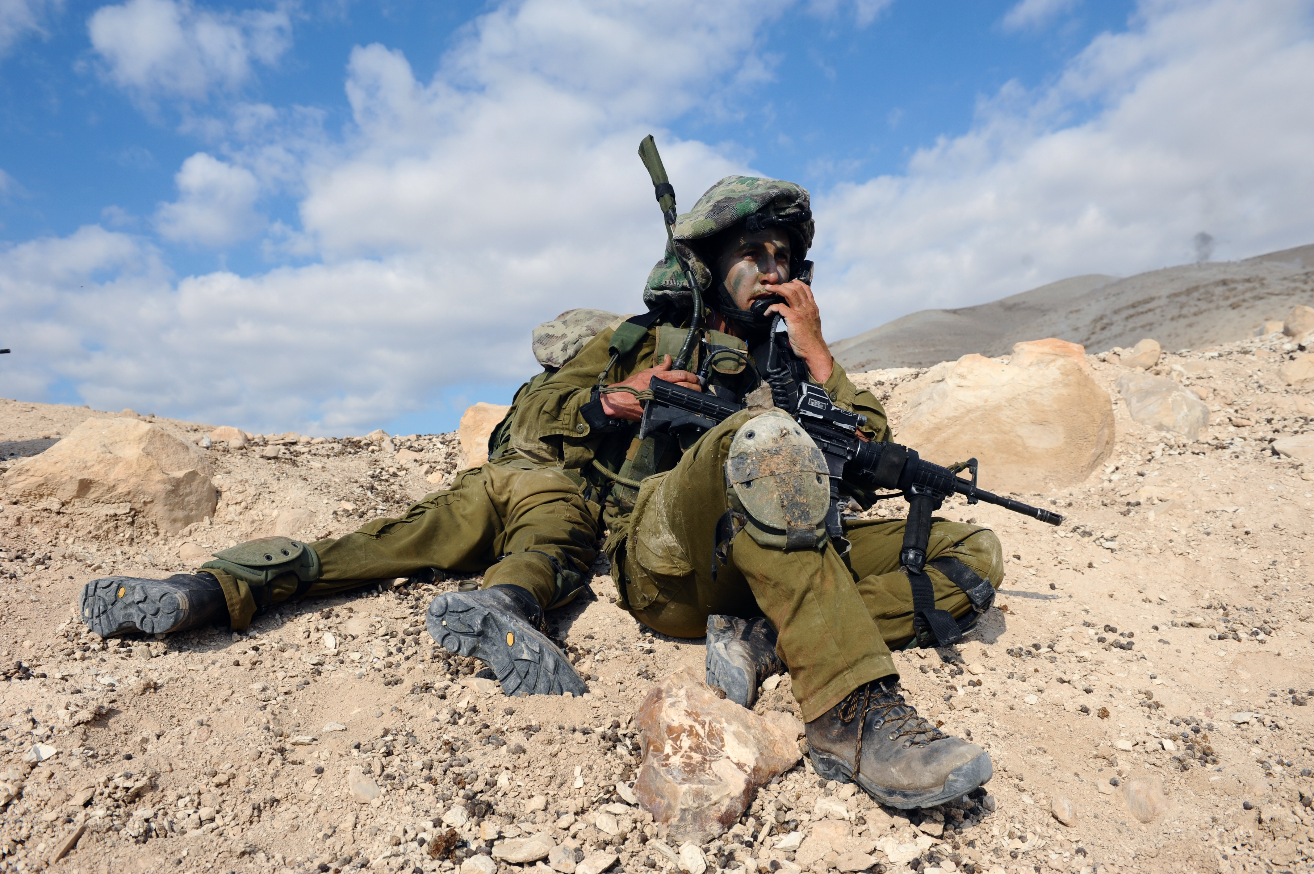 December 16, 2012 They don't just parachute: the Paratroopers Brigade's Reconnaissance Battalion practice urban warfare in a live-fire drill, meant to stimulate the reality of fighting in densely populated areas. During the exercise, the combat engineering company practiced taking over a building, all the while taking care to minimize uninvolved casualties. Photographer: Sgt. Shay Wagner, IDF Spokesperson's Unit For more from the IDF